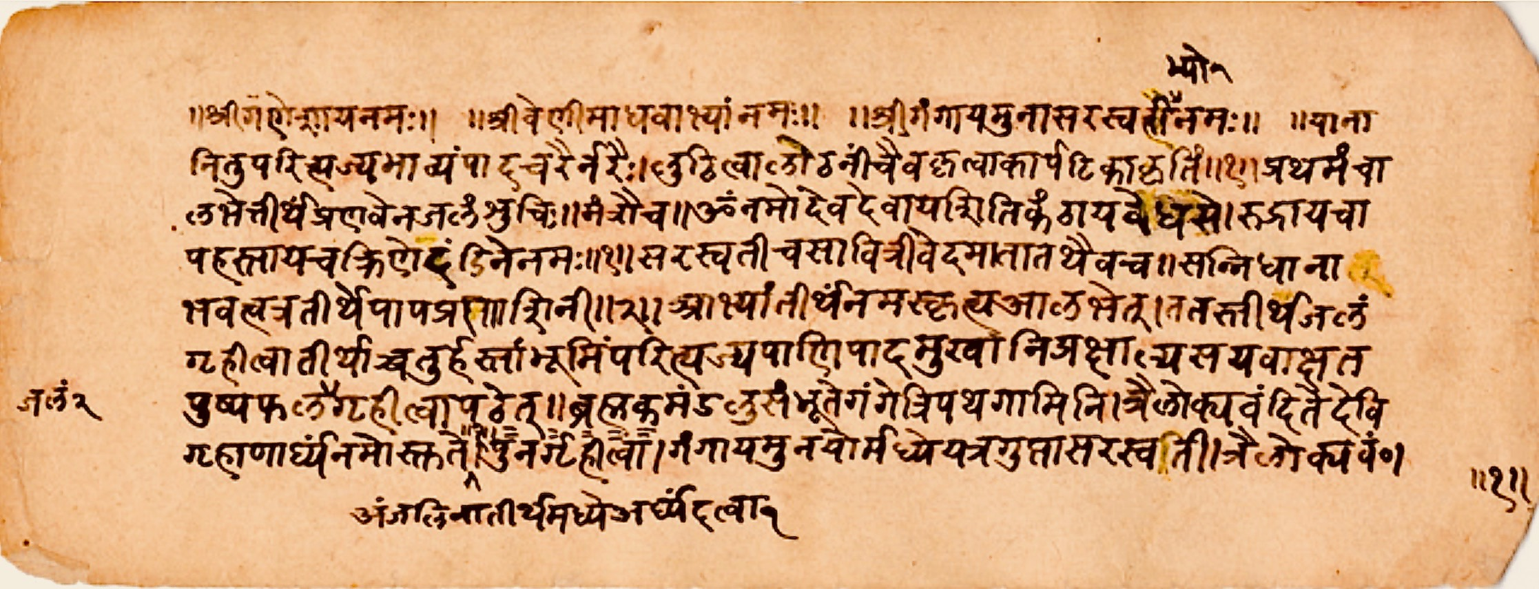 Prayag snana vidhi (lit. "guide to bathe at Prayag") and Prayag mahatmya (lit. "glory of Prayag") are chapters found in the Puranas-genre of Sanskrit texts. These describe the legend of sangam (confluence) of three rivers: Ganga, Yamuna and the underground hidden Sarasvati at a place they call Prayag. It has been an ancient site of Magha mela, that grew to be a center of the world's largest Hindu pilgrimage and gathering in January every 12 years in the 19th-century. By early 21st-century, with the convenience of modern transport, an estimated 100 million pilgrims reportedly gathered over 55 days around January for the Kumbh mela. The above is a photo, or illustration purposes, of a few random manuscript pages of a 17th-century manuscript that is archived and preserved at the University of Pennsylvania (Mss Poleman 3324 / UP 140). Penn Library holds the largest number of South Asian manuscripts in North America. The photo above is of a 2D pages of a manuscript that was published in 1674 CE. Therefore Wikimedia Commons PD-Art licensing guidelines apply. Any rights I have as a photographer is herewith donated to wikimedia commons under CC 4.0 license.